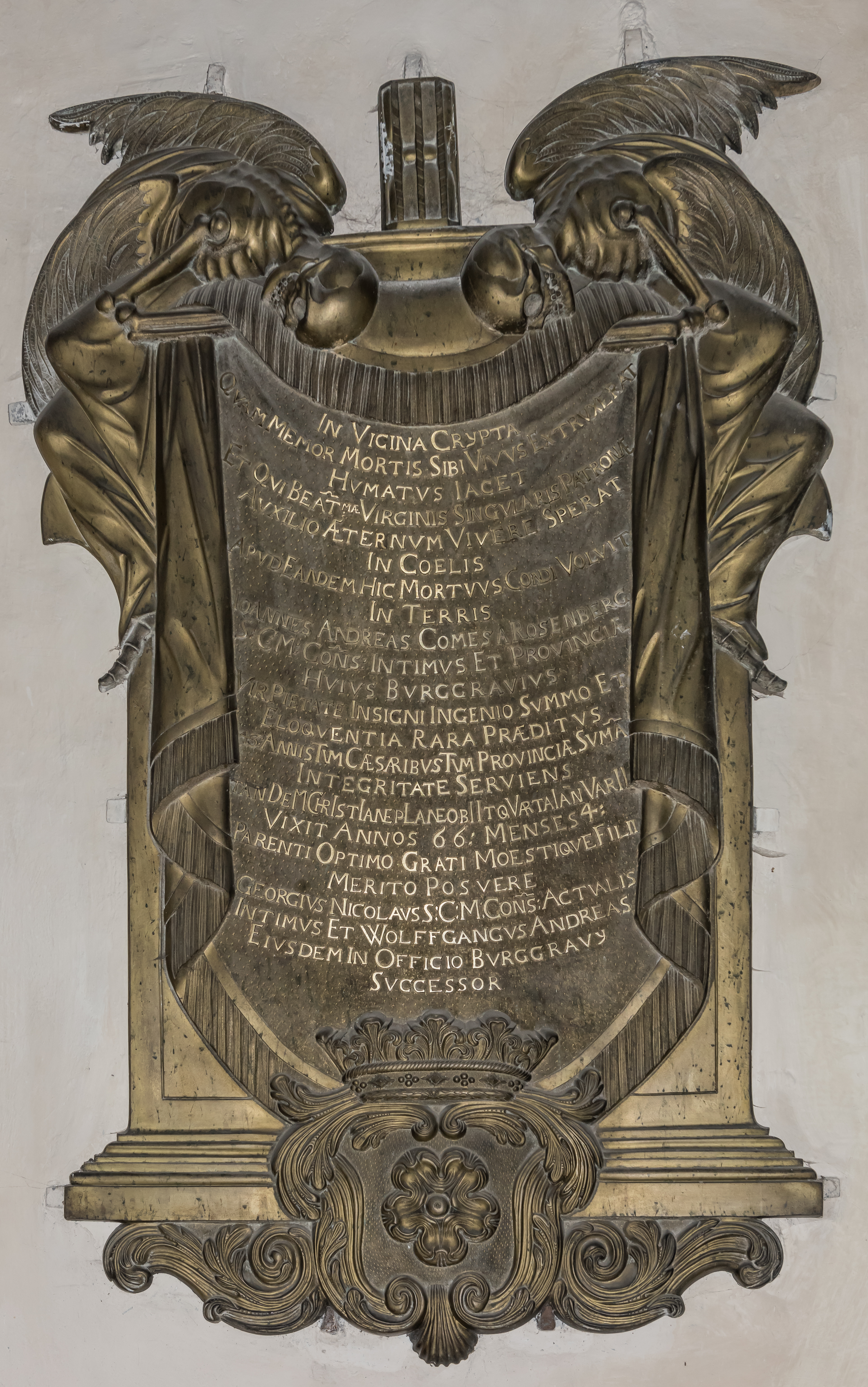 Bronze epitaph for Johannes Andreas Orsini-Rosenberg with relief of coat of arms for the Rosenberg family, set up at the northern interior wall of the parish church Assumption of Mary, market town Maria Saal, district Klagenfurt Land, Carinthia, Austria, EU